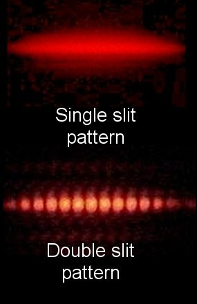 This is a modified version of Single slit and double slit2.jpg by Jordgette. The first and second order diffractions have been removed to illustrate the interference more clearly